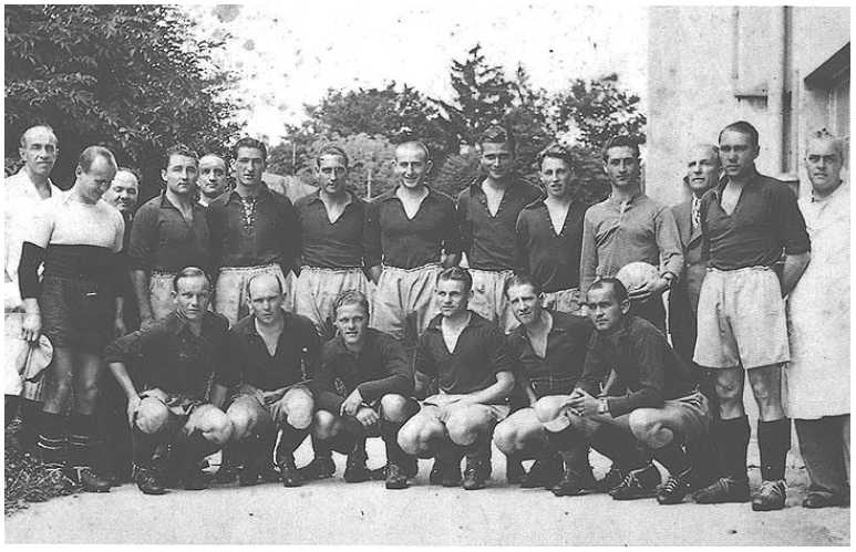 Swiss champion 1939/40 Servette FC Standing: Tognetti, Feutz, Sautier, Loertscher, Debrot, Fuchs, Monnard, Walaschek, Van Gessel, Pasteur, Carmorani, Brunner, Aeby, Scheller Kneeling: Oswald, Trello, Abegglen, Guinchard, Buchoux, Riva, Sauvain